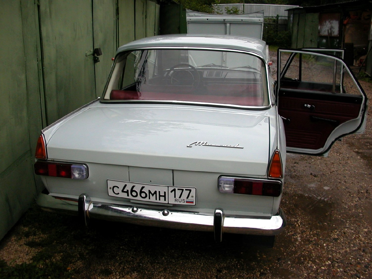 1975 Moskvitch-412IE rear view